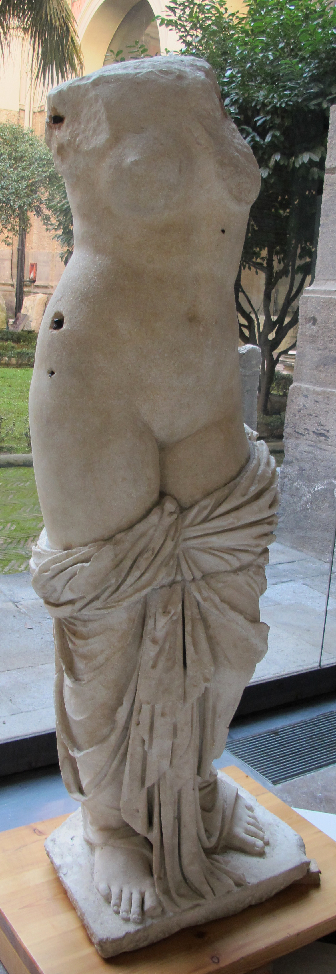 Ancient Roman statues in the Museo Archeologico (Naples)